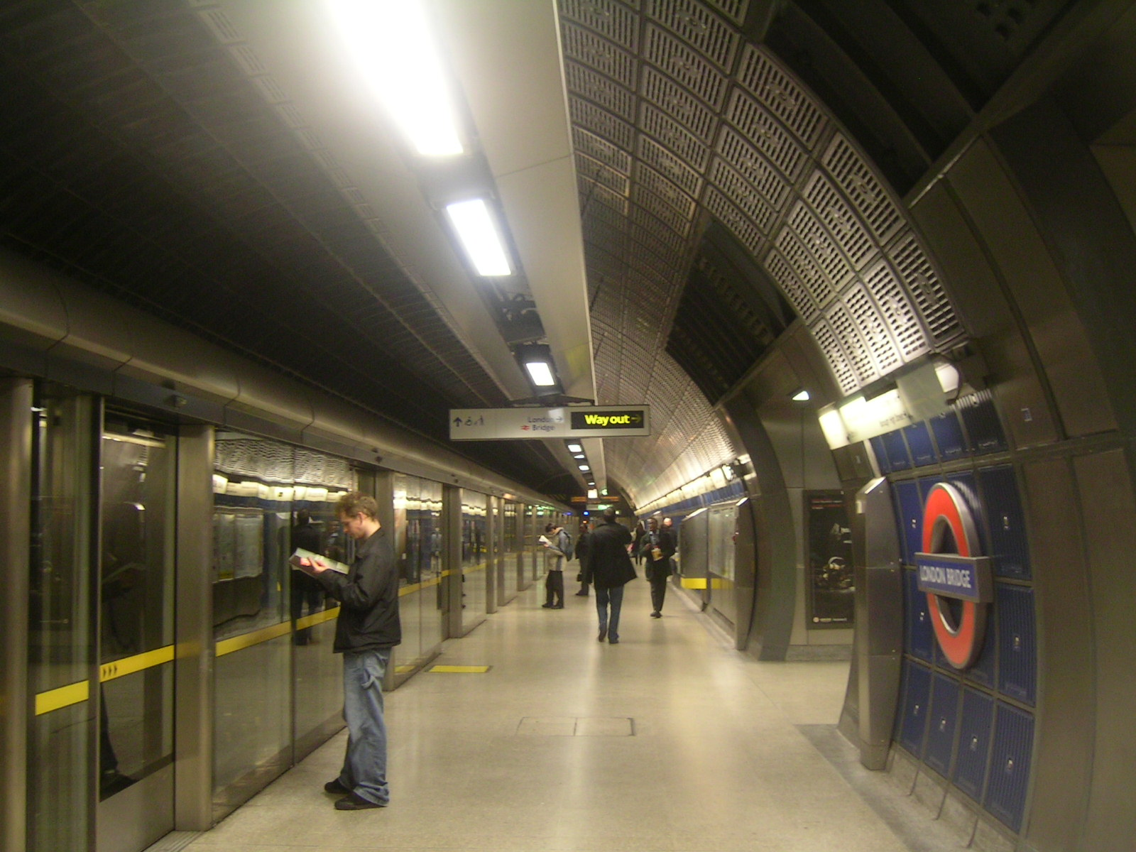 The Jubilee Line platforms at London Bridge station. Taken by me on 3rd December 2005.